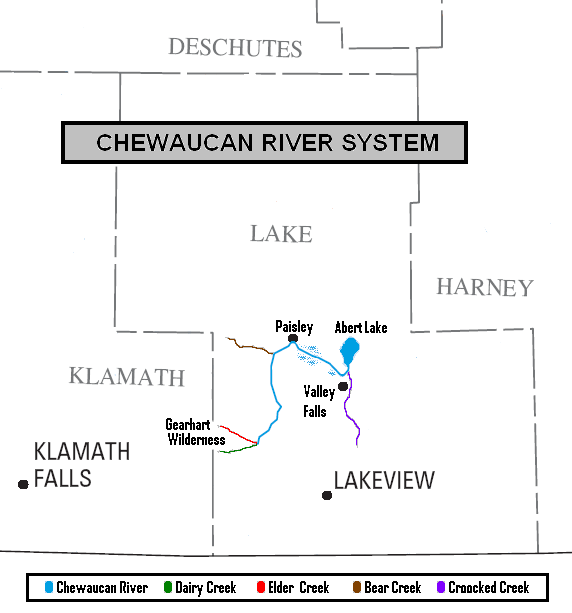 Map of Chewaucan River drainage basin in Lake County, Oregon